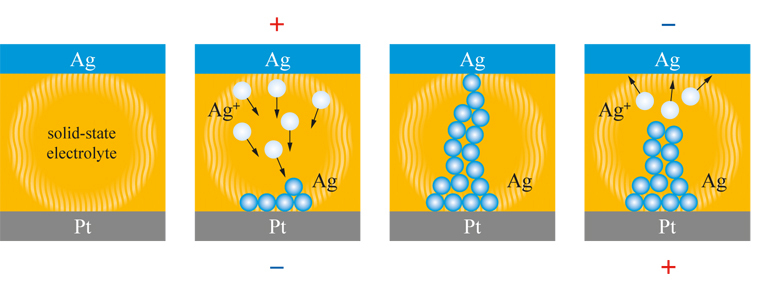 Simple example of an electrochemical memory cell that uses of silver nanoparticles.